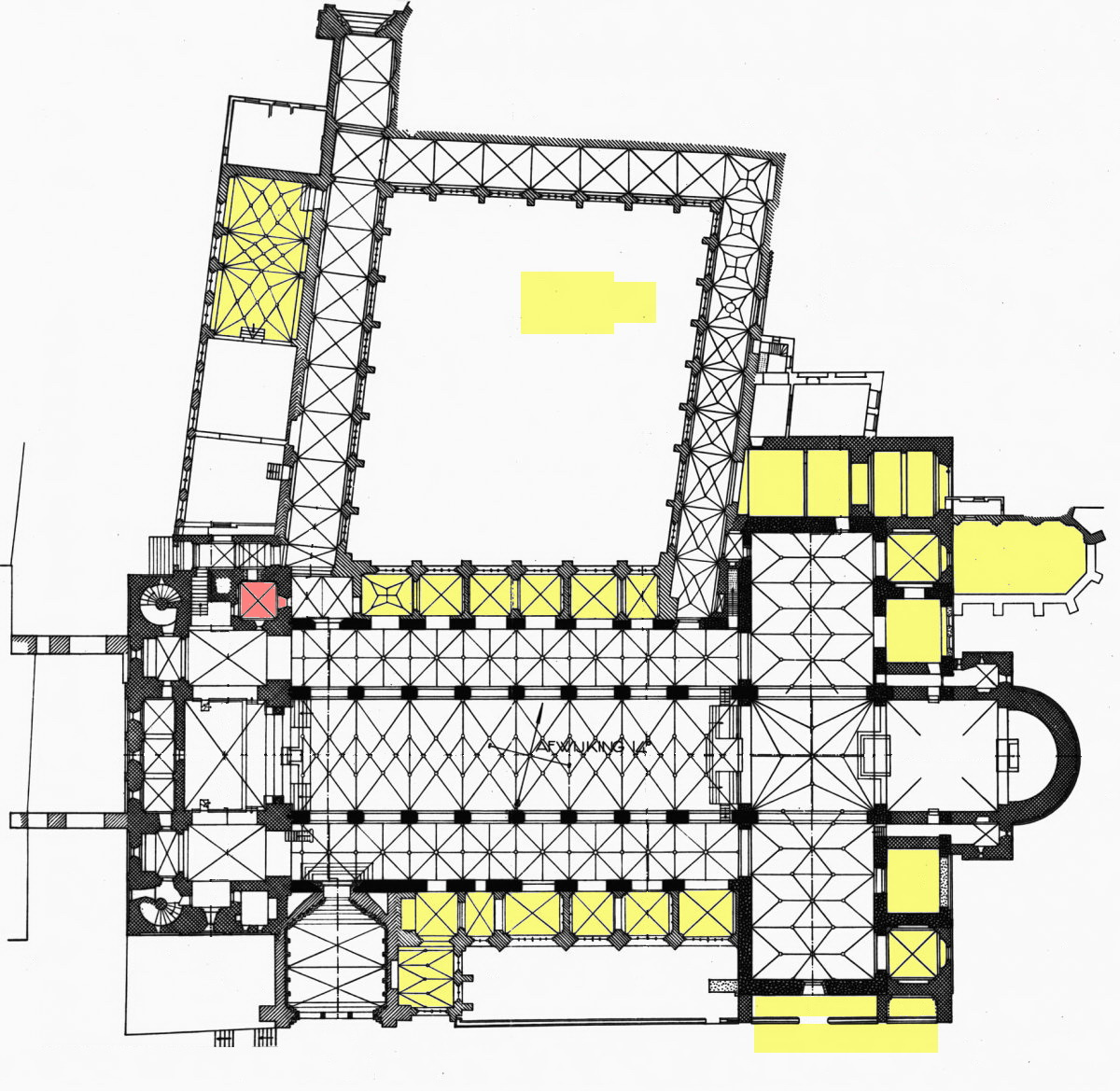 Locator map of chapels of the Basilica of Saint Servatius in Maastricht, the Netherlands. This map by an unknown author was first published in 1926 in Van Nispen tot Sevenaers De monumenten in de gemeente Maastricht, Deel 1, and donated to Wiki Commons by Rijksdienst voor het Cultureel Erfgoed on 7 January 2013. All colouring and other edits are by Kleon3. In yellow all 17 chapels of Sint-Servaasbasiliek in past and present. In red the chapel of the provosts on the gallery floor of the westwork.